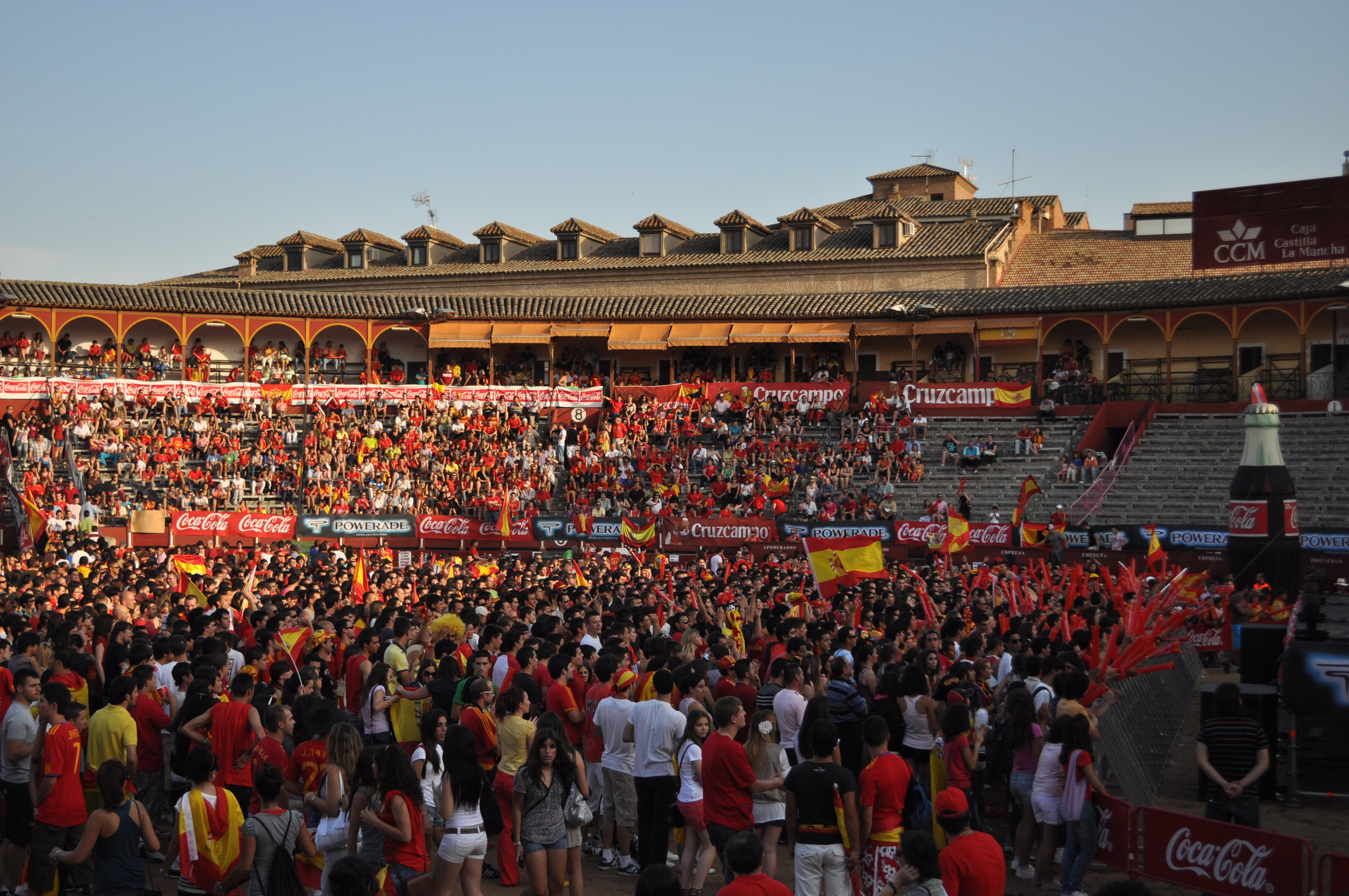 Photos from the Plaza de Toros in Toledo, Spain during the World Cup 2010